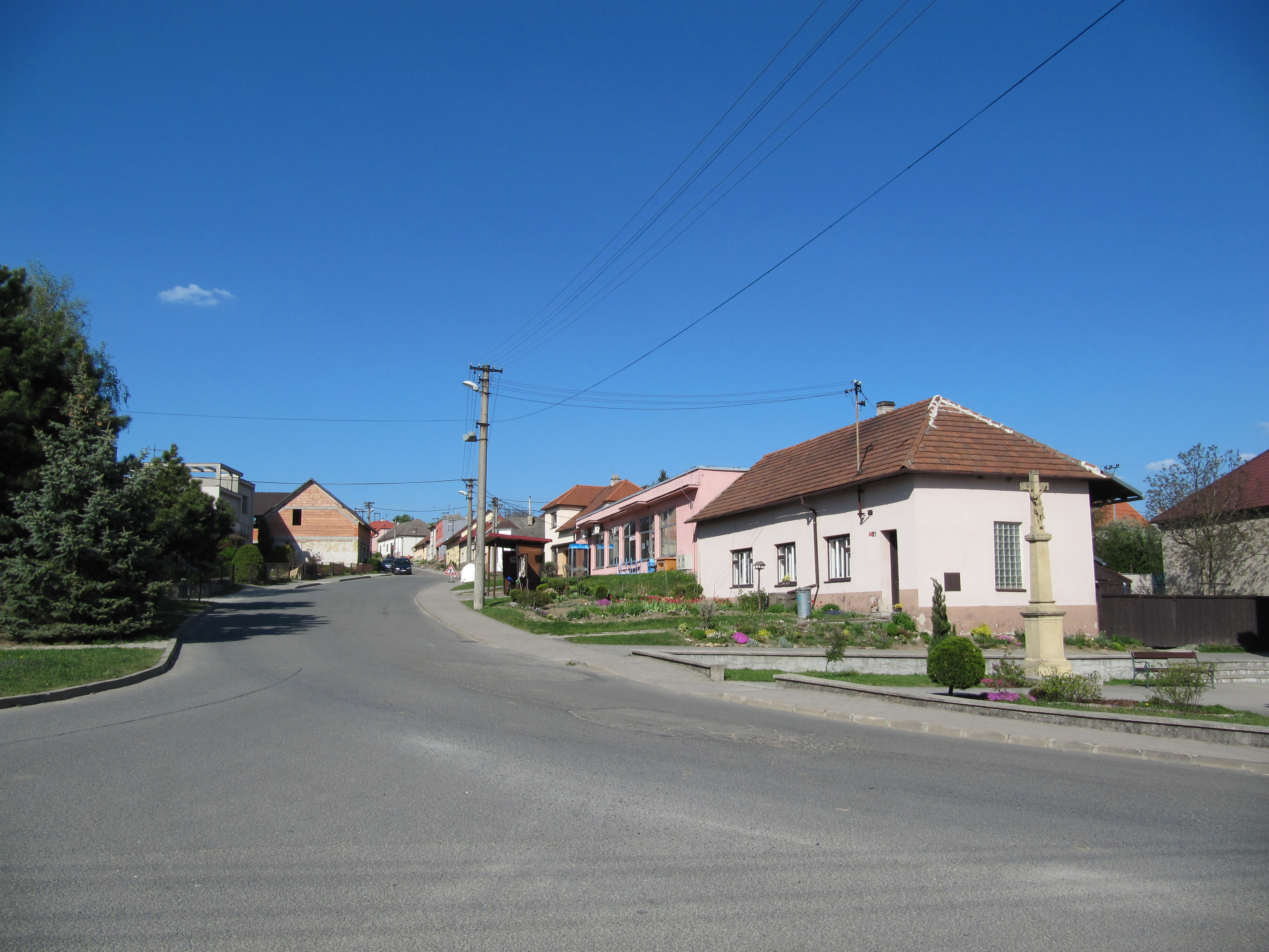 Lhota in Zlín District, Czech Republic. Common.